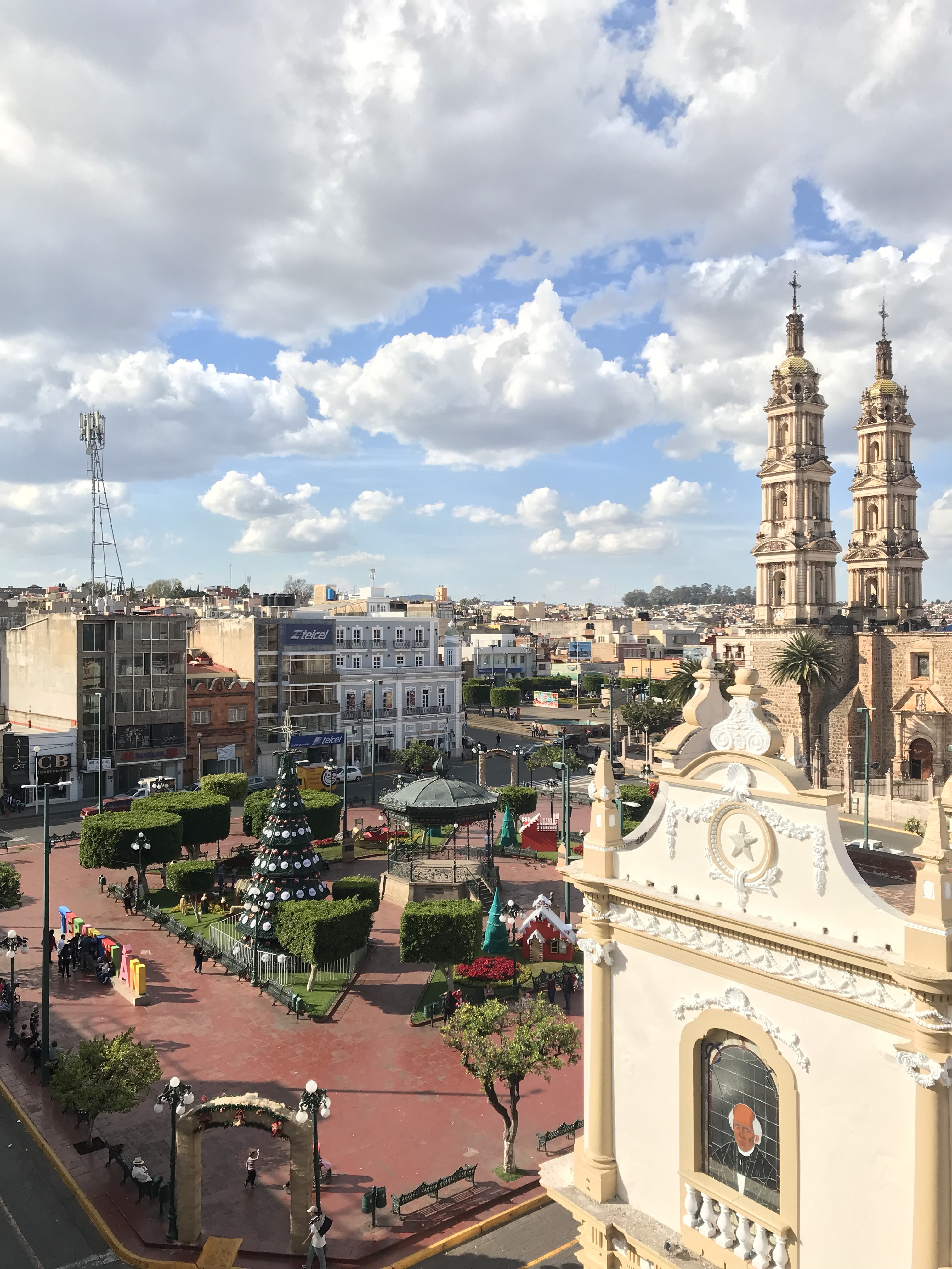 View of the main square of Tepatitlán, Jal. from the Plaza Hotel in December 2018.